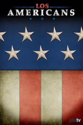 Poster art for Los Americans